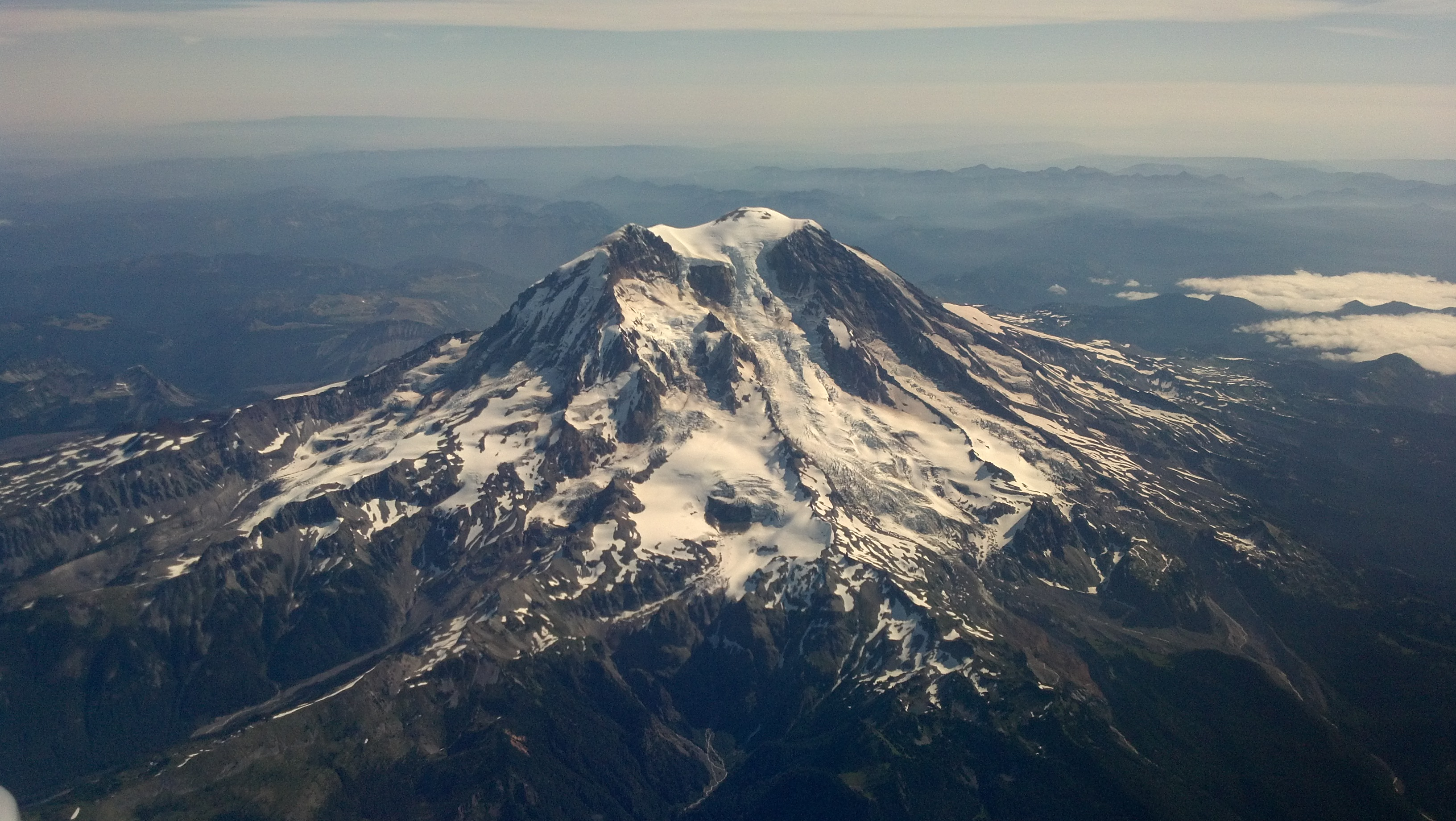 Aerial photograph of Mt. Rainier taken on September 14, 2011 from a 737-700 operated by Alaska Airlines, en route to Phoenix, AZ.